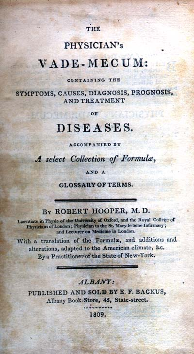 Title page of Robert Hooper's Physician's Vade Mecum, first US edition.